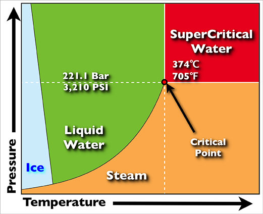 Water, when raised simultaneously to very high temperatures and pressures, approaches what is known as the “critical point” (≥374.2°C and 22.1 MPa), above which water becomes “supercritical” as shown in the Red Area in the upper right.